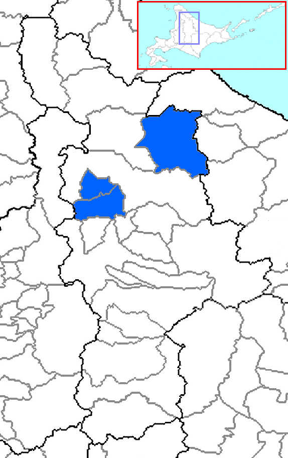 The location of Kamikawa (Teshio) District in Kamikawa Subprefecture, Hokkaido Prefecture, Japan.